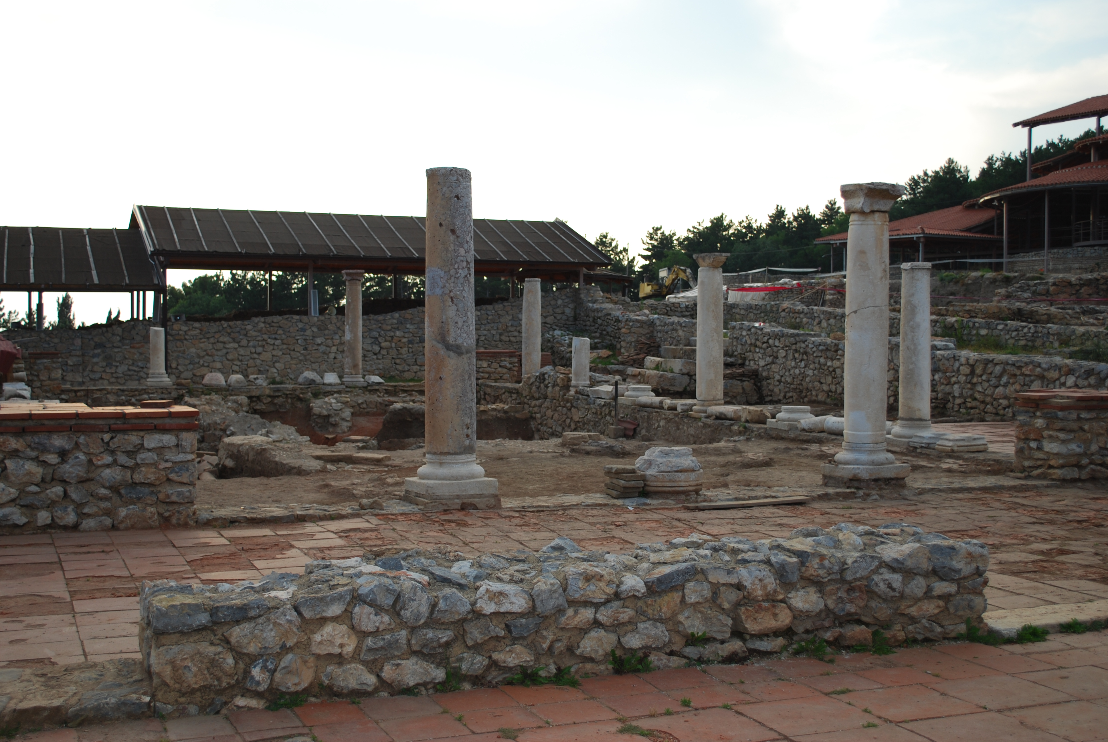 Plaošnik, Ohrid, Macedonia